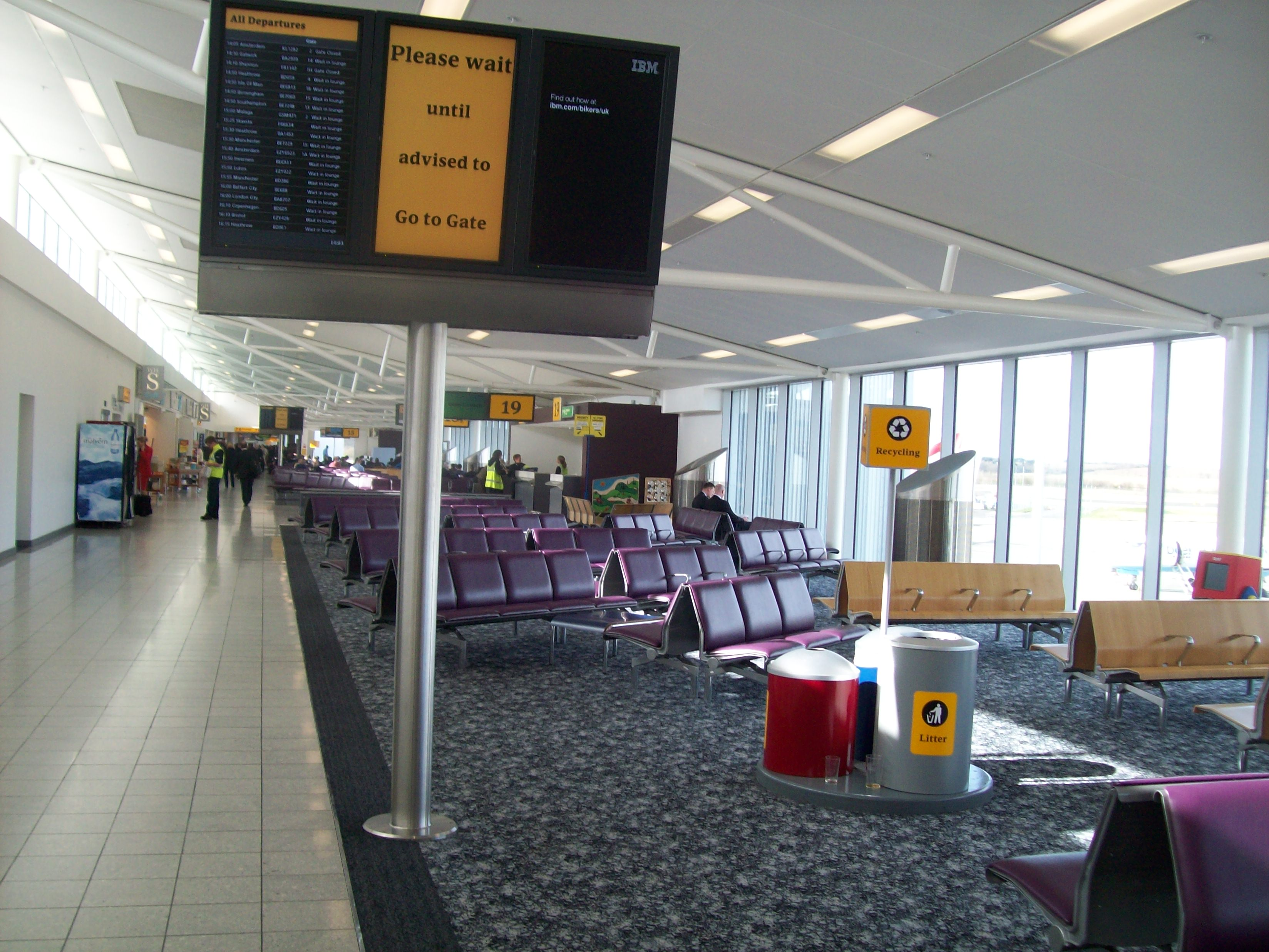 Edinburgh Airport gate lounge area, Scotland